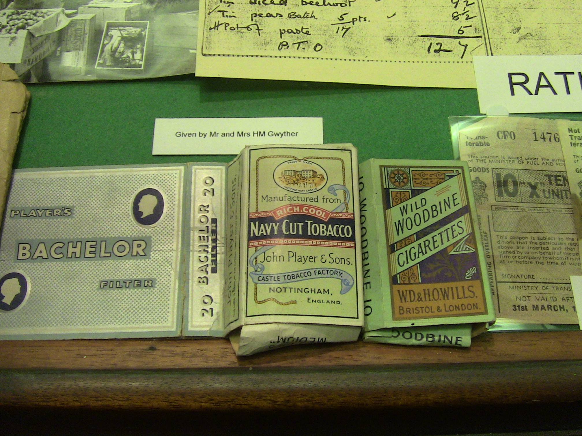 WW2 cigarette packets at Monmouth Regimental Museum